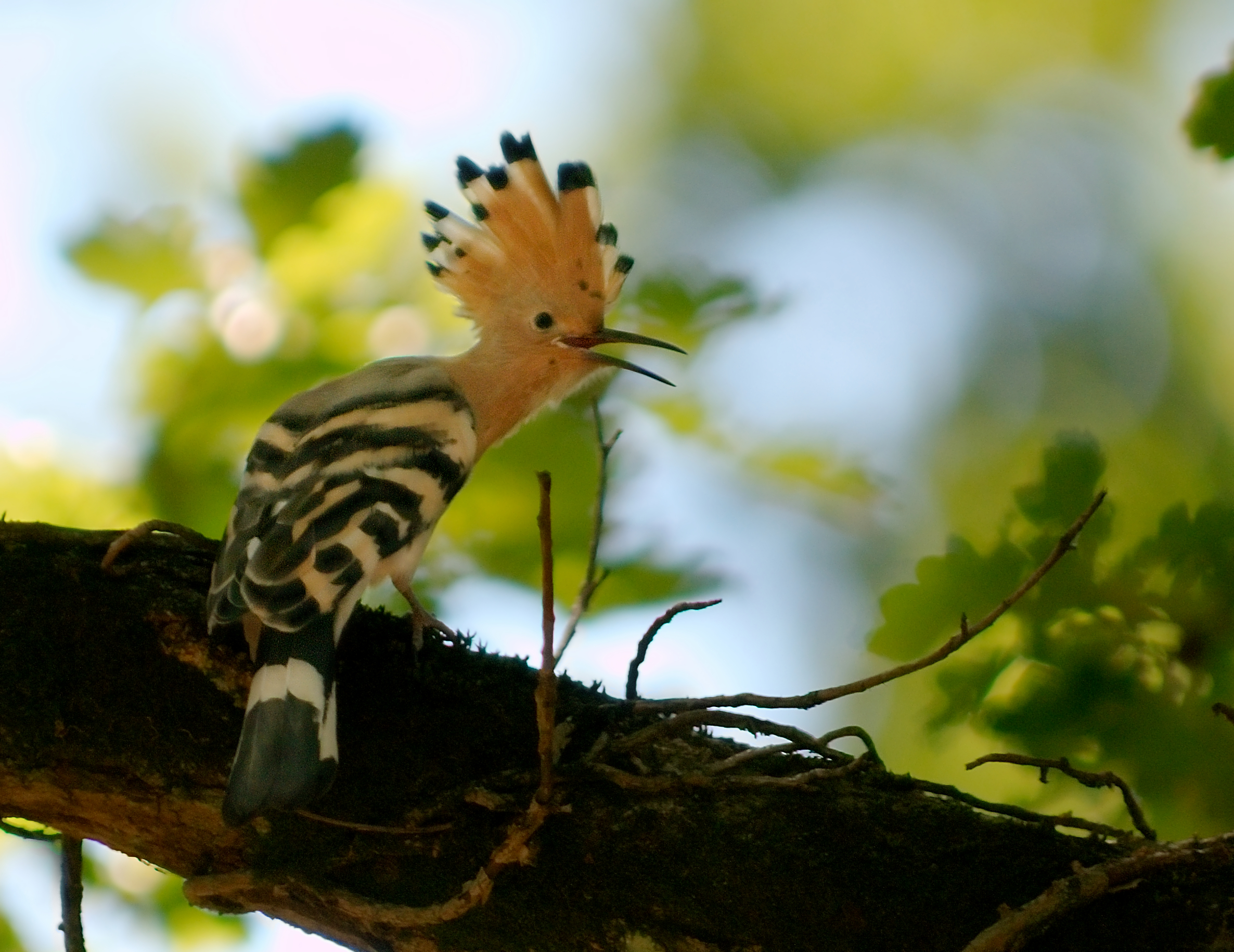 Hoopoe Upupa epops (France)